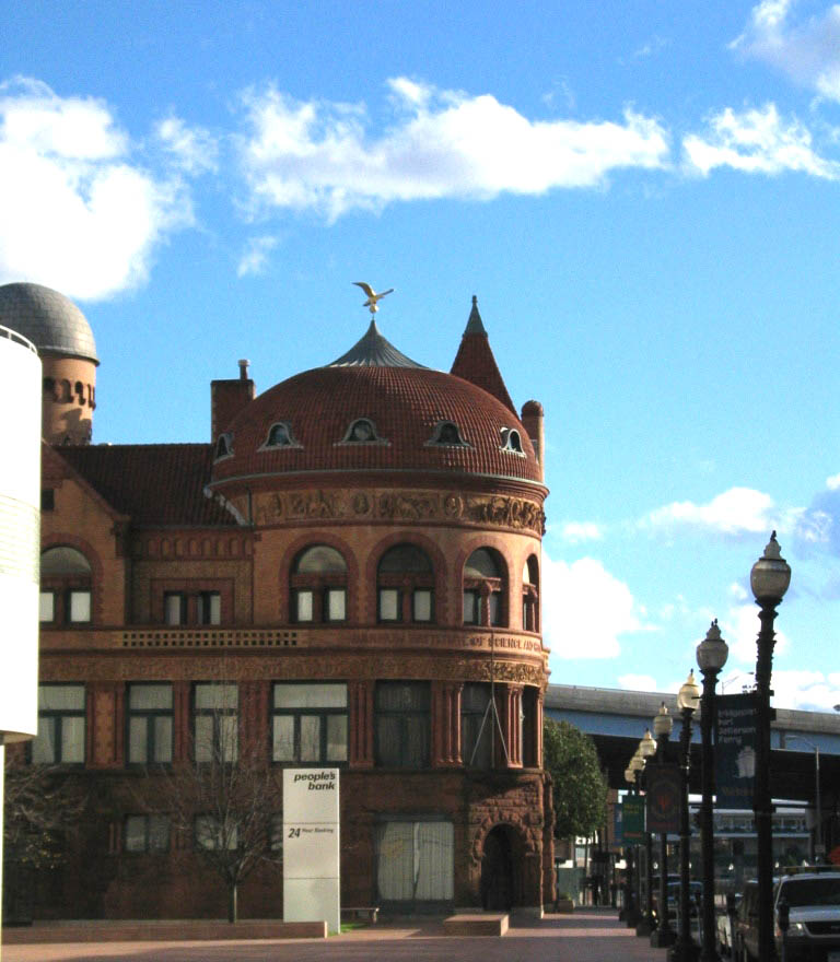 Summary Barnum museum is housed in this architectural treasure Category:Images of Connecticut 03:09, 10 December 2005 GK tramrunner 768x880 (95558 bytes) (Barnum museum is housed in this architectural treasure)